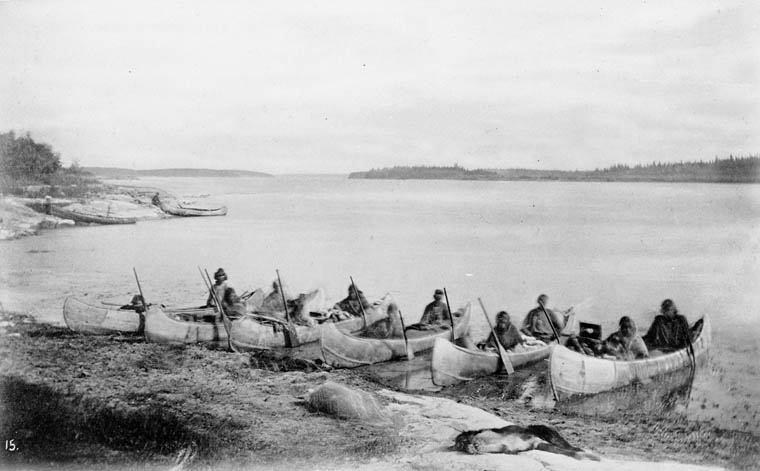 First Nations people on the Nelson River of Manitoba, one mile above Clearwater River and en route to their hunting grounds, 1878.